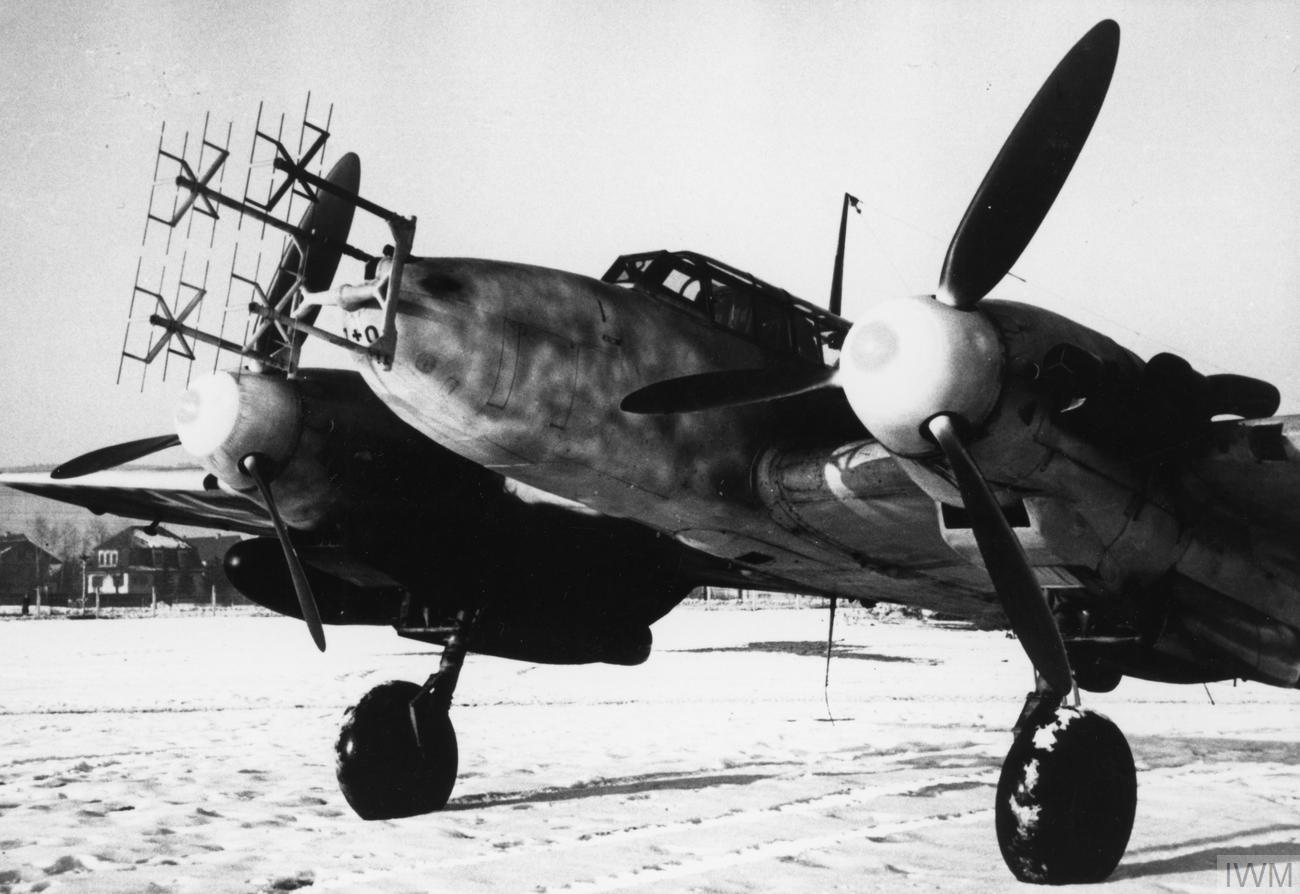 The German Air Force in the Second World War Messerschmitt Bf 110G-4/R1 of 6./NJG 6 that landed at Dubendorf in Switzerland by mistake on 15 March 1944. Note the aerial array for the FuG 202 Lichtenstein BC airborne interception (AI) radar.